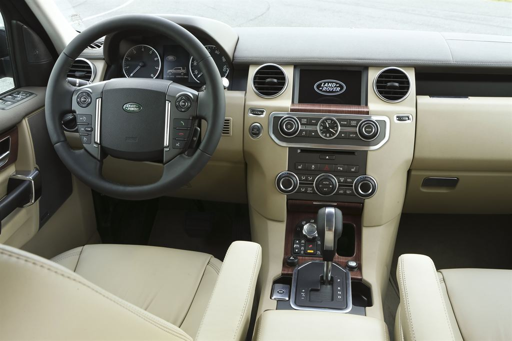 The LR4 is world-renowned as the ultimate all-purpose vehicle. For 2013, the LR4 sets the standard even higher with new optional features including the Extended Leather Pack inspired by the HSE Luxury Limited Edition, and distinctive Black Design Packs available with 19” or 20” all-black painted wheels and a host of black trim finishers and design details such as gloss black grille and fender vents.